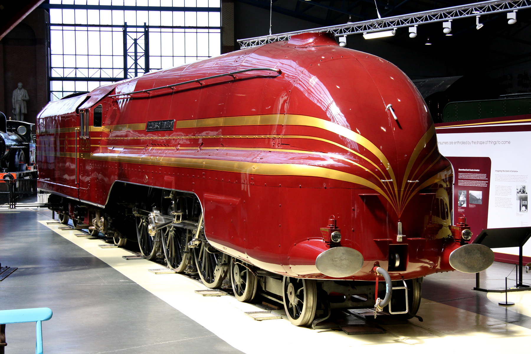 The National Railway Museum?s former London Midland and Scottish Railway Stanier 7P 4-6-2 ?Coronation? class locomotive number 6229 DUCHESS OF HAMILTON on display in the great hall at the National Railway Museum, York. Monday 1st June 2009